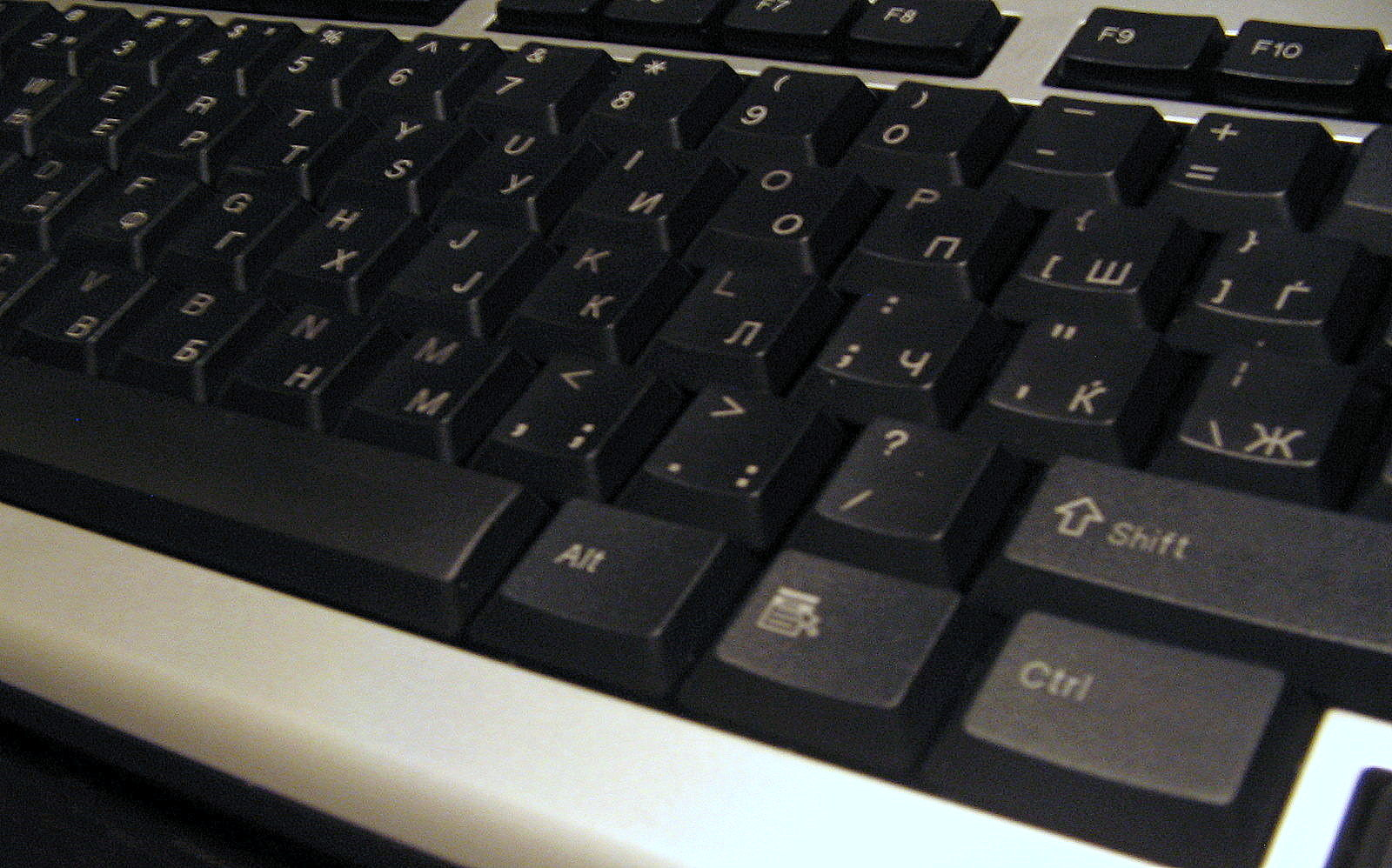 Macedonian keyboard "Delux", Model: K5206